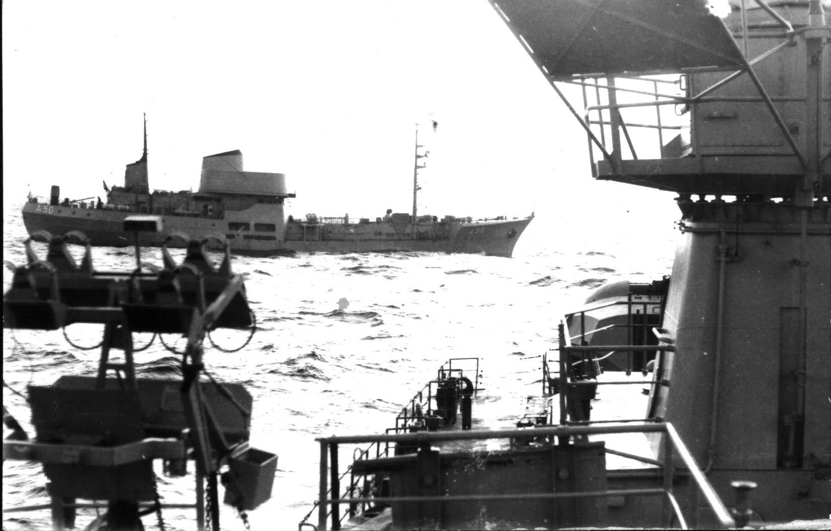 FGR navy SIGINT/ELINT ship Alster (A50) (class 422), passes the stern of GDR navy ship "Wismar" in the baltic sea.